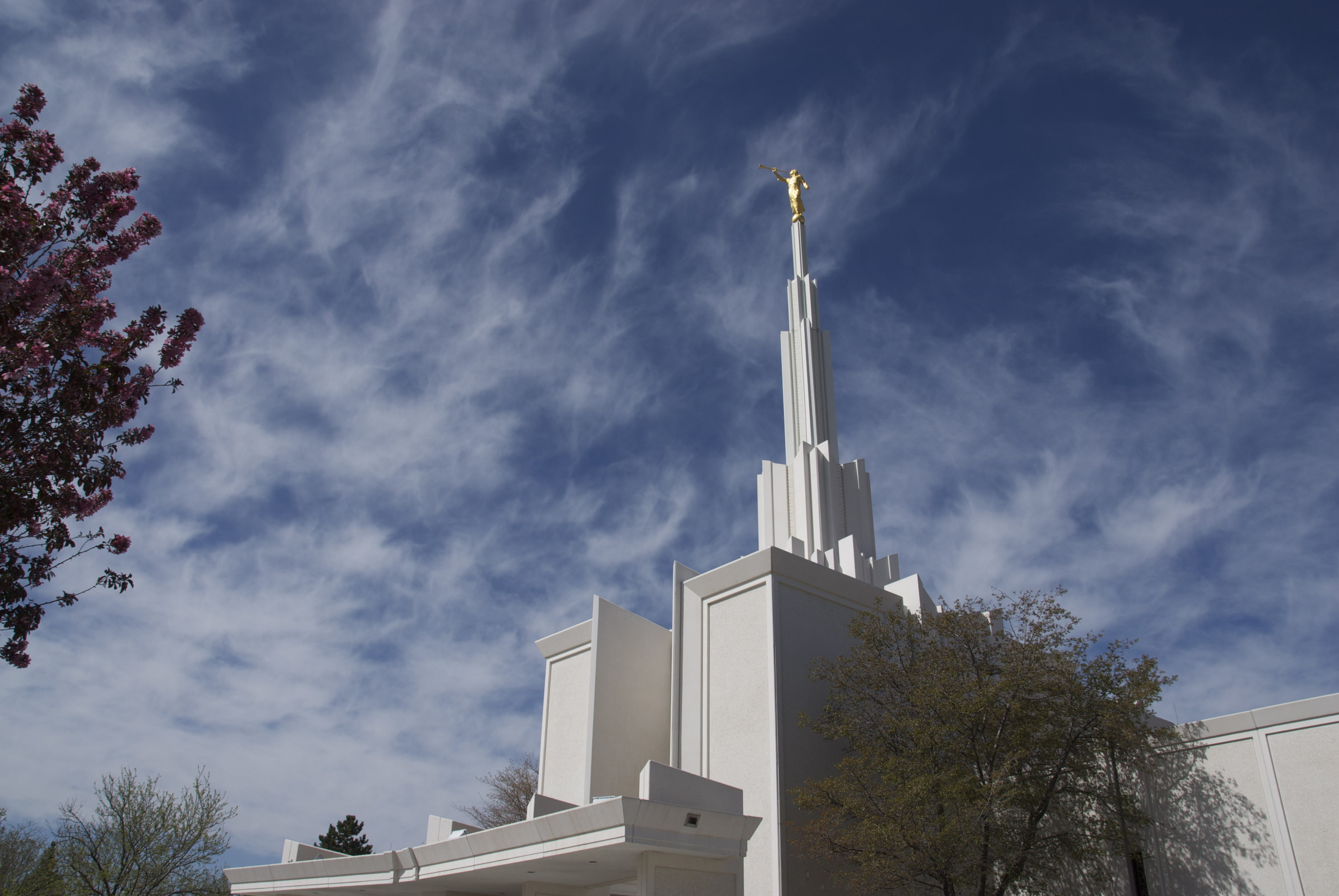 The Denver Colorado Temple of The Church of Jesus Christ of Latter-day Saints.